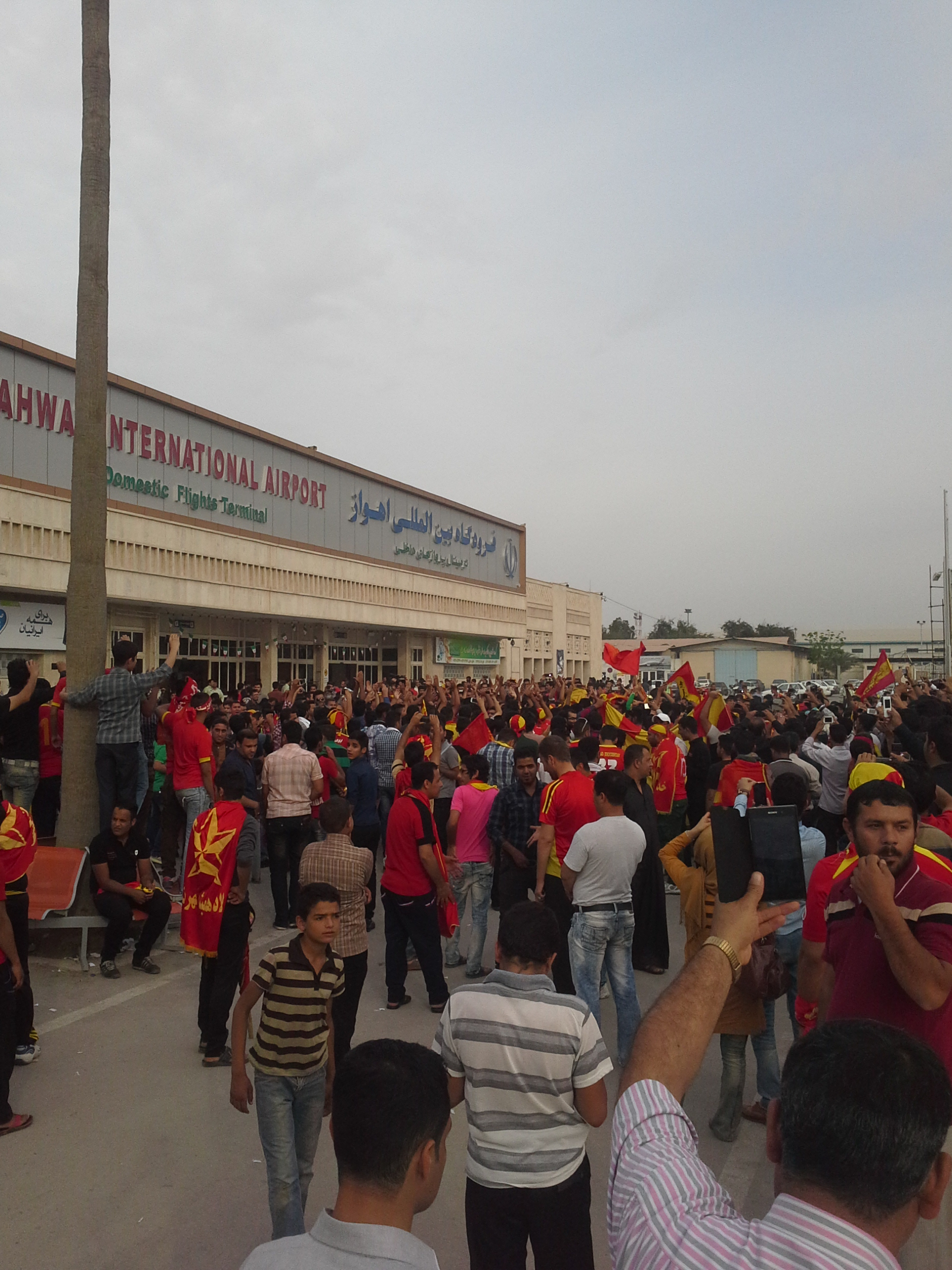 Foolad FC supporters in Ahwaz international airport.